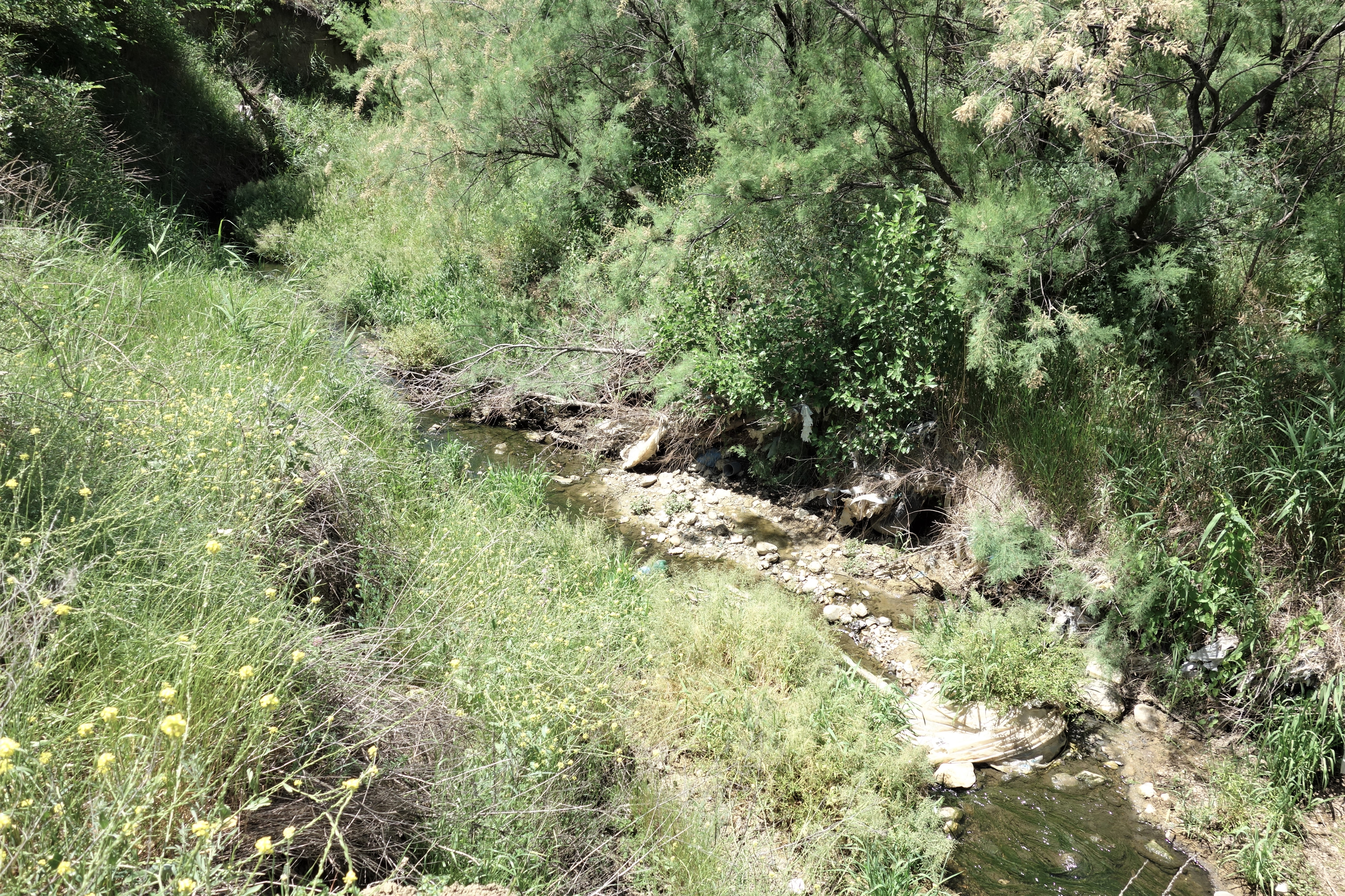 River Khevdzmari in Gldani, Tbilisi